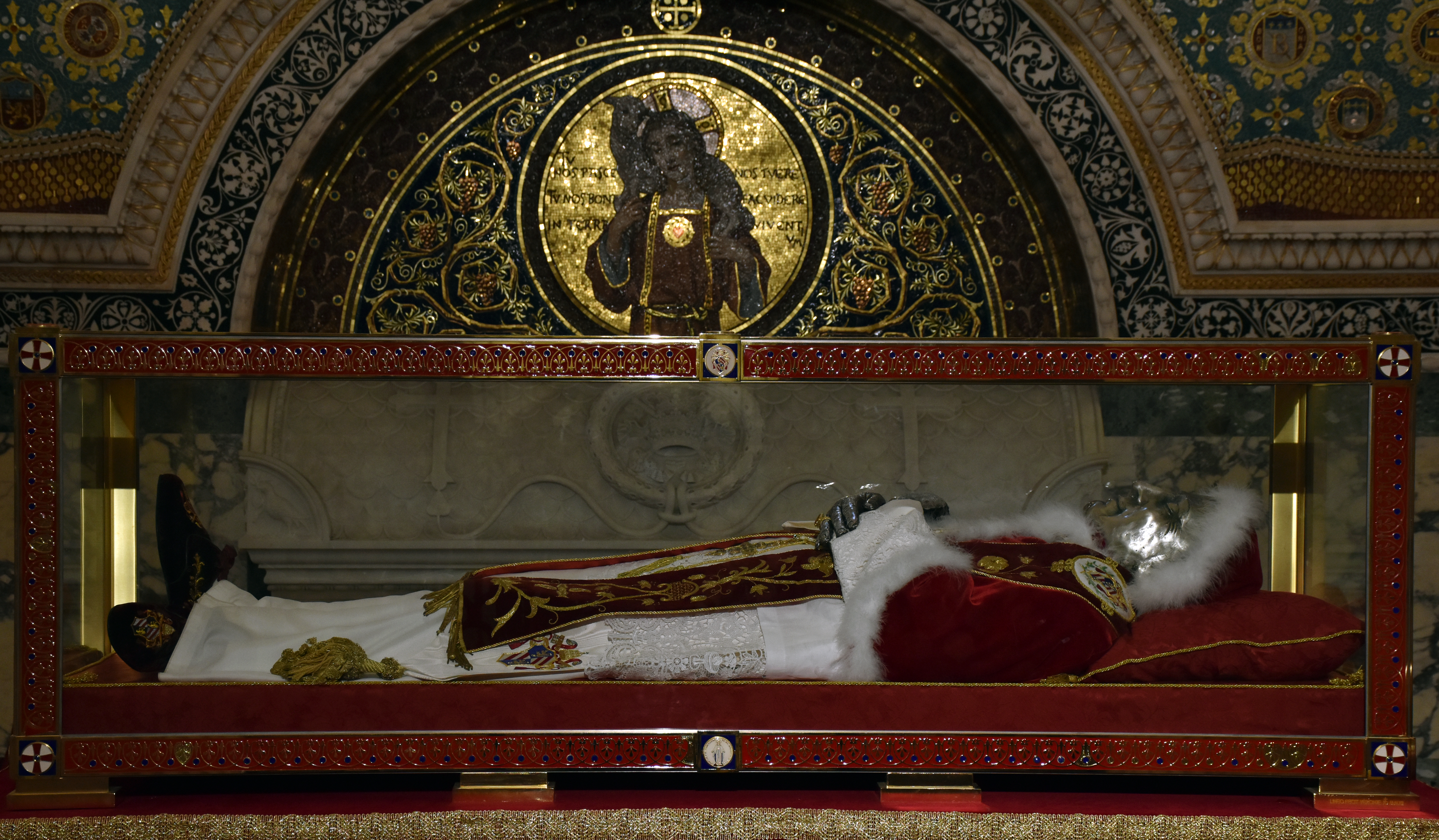 Tomb of Pius IX, in San Lorenzo fuori le mura (Rome).